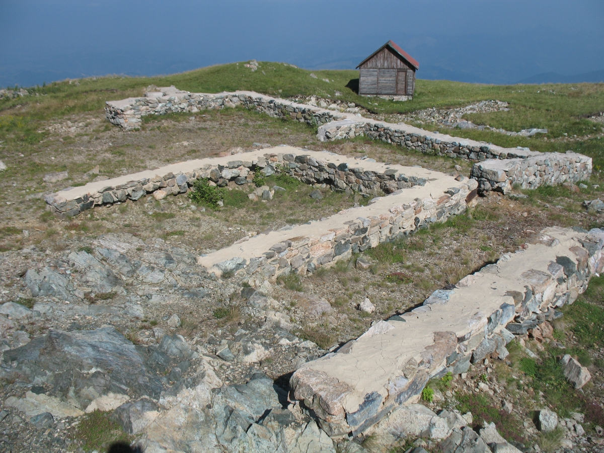 Ancient Roman buildings on Nebeske stolice (Cellestial chairs) archaeological site below Pančićs peak on Kopaonik,Serbia.